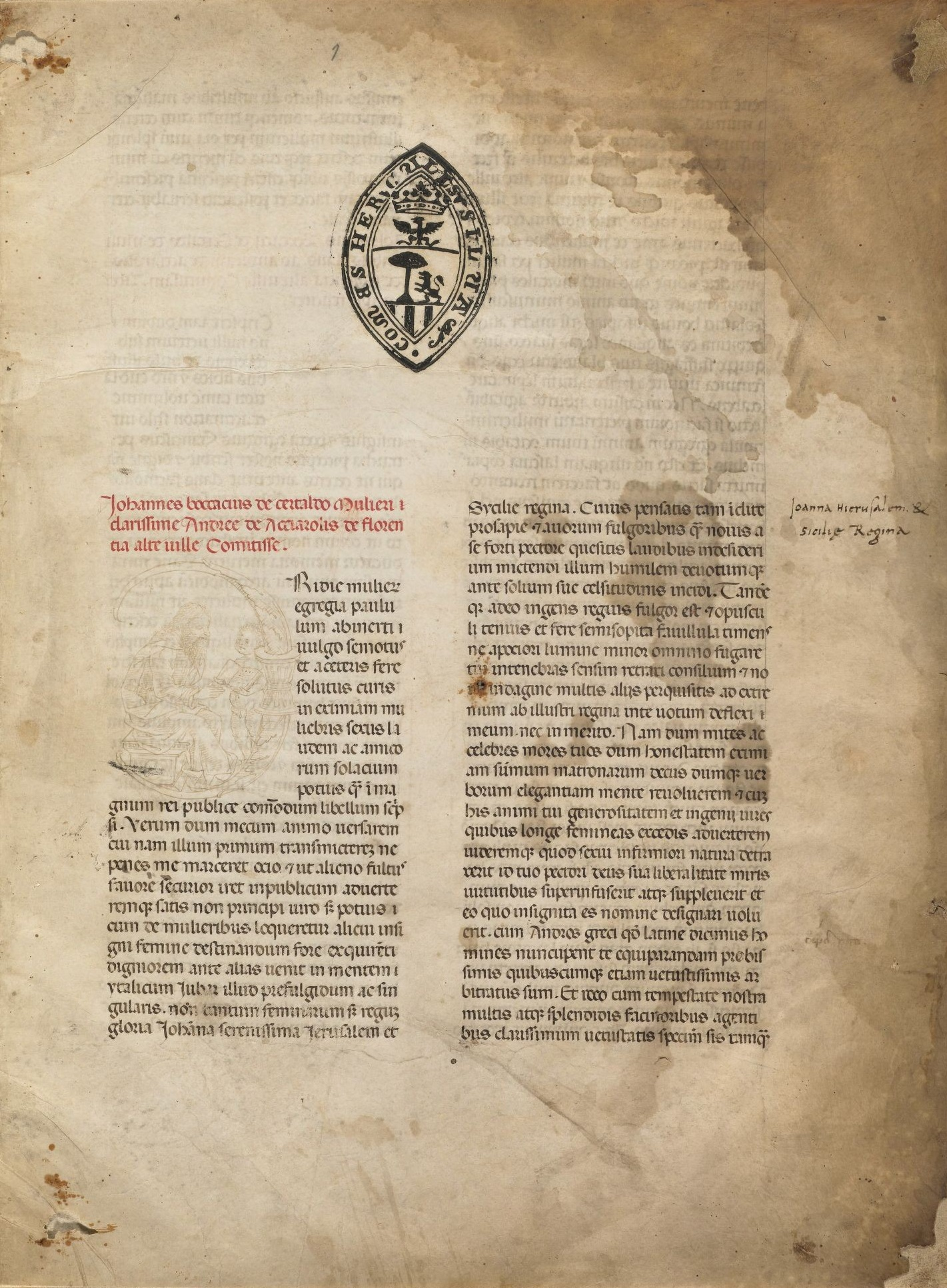 Incomplete illuminated manuscript version of De mulieribus claris, [ca. 1425], originally by Giovanni Boccaccio (1313-1375). From the source: "this manuscript was intended to have illuminated initials, but for some reason they were never completed, which gives us an unusual opportunity to see an earlier stage in the process, preparatory sketches which would have eventually been covered over." Full digitized manuscript at source: MS Richardson 41, Houghton Library, Harvard University